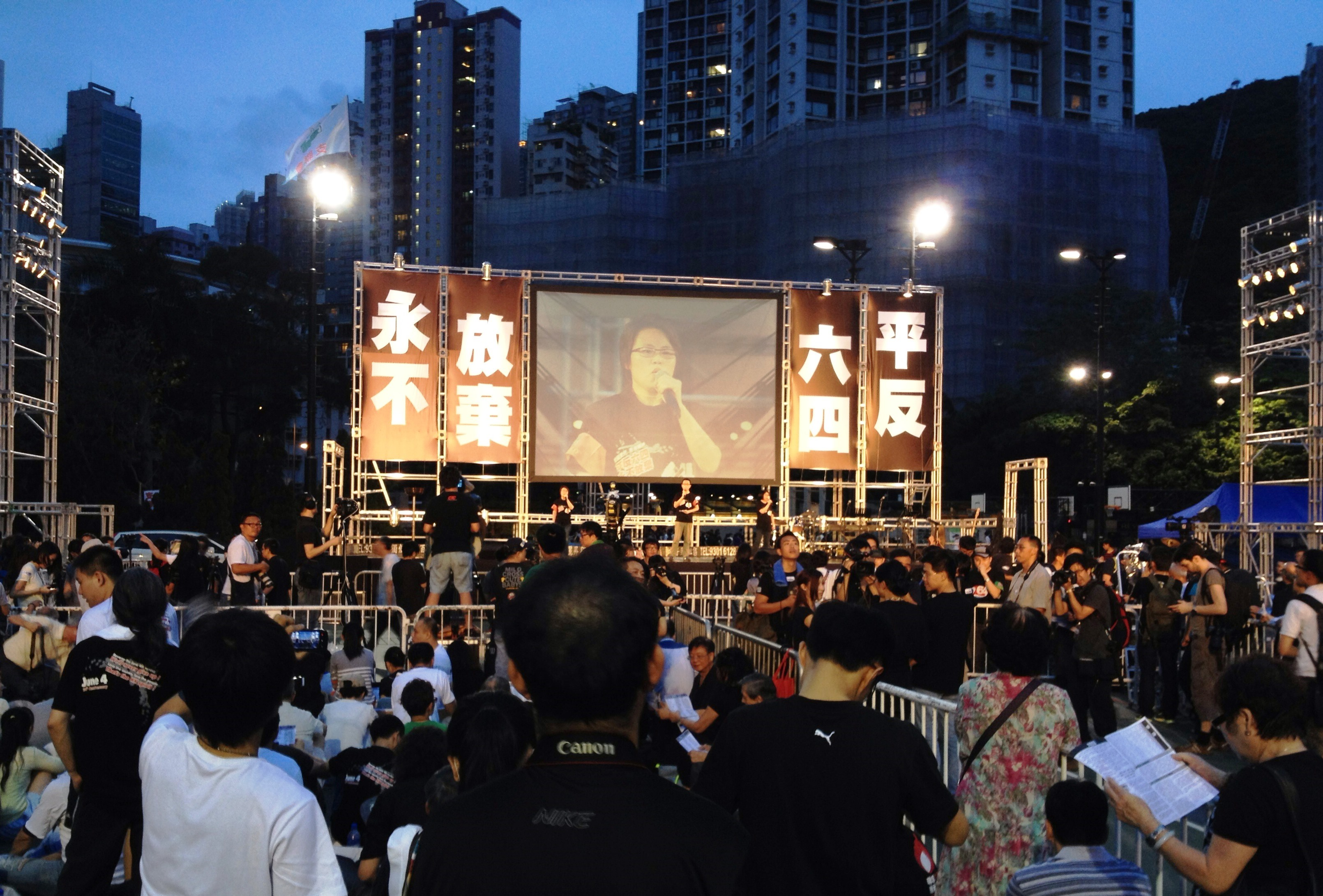 Braemar Hill, 港島, 香港